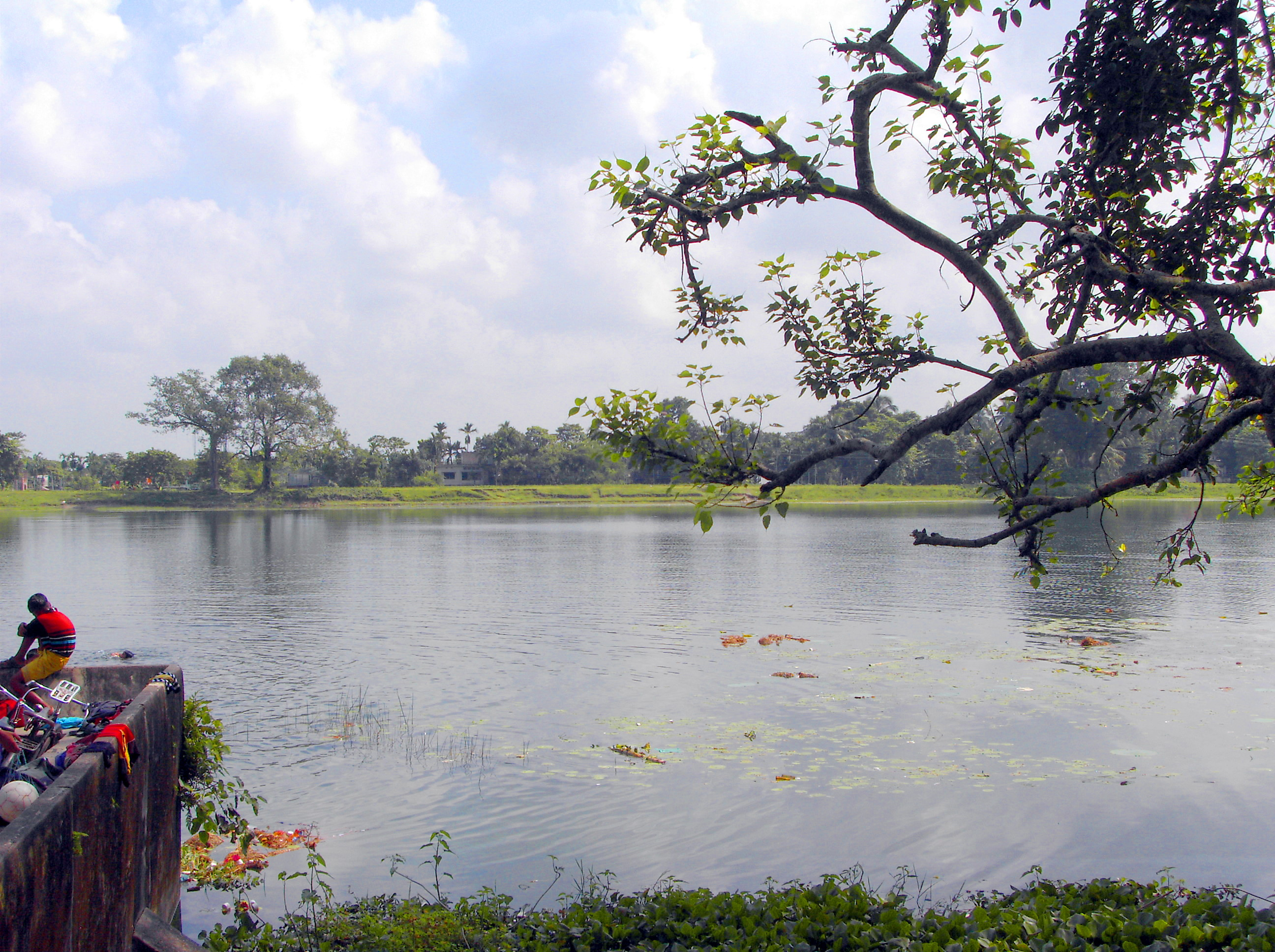 This is a large pond till today which was dug in the late 1800-1847 A.D by Sarva Dev the then ruler.